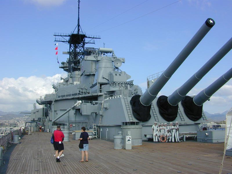 The USS Missouri aft deck and Turret 3 (BB-63 docked as a tourist attraction in Pearl Harbor, Hawai‘i); photographed on February 24, 2001 by Eric Guinther.